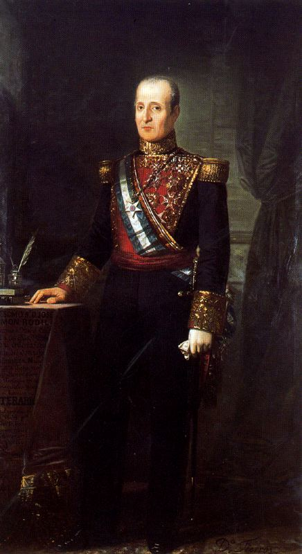 Portrait of José Ramón Rodil, 1st Marquis of Rodil (1789-1853), marquis of Rodil and general of the Spanish Army.